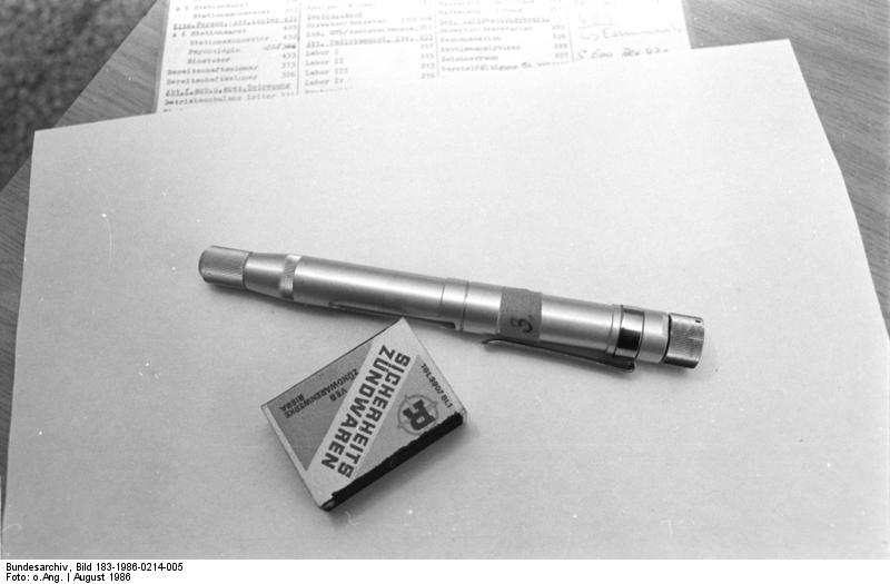 This insulin pen, developed at university of Olomouc (ČSSR), is been under investigation at the central institute for diabetes “Gerhardt Katsch” in Karlsburg near Greifwald.